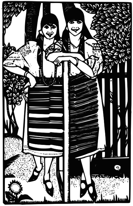 Ragazze in abito popolare ("Girls in National [Romanian] Costume").